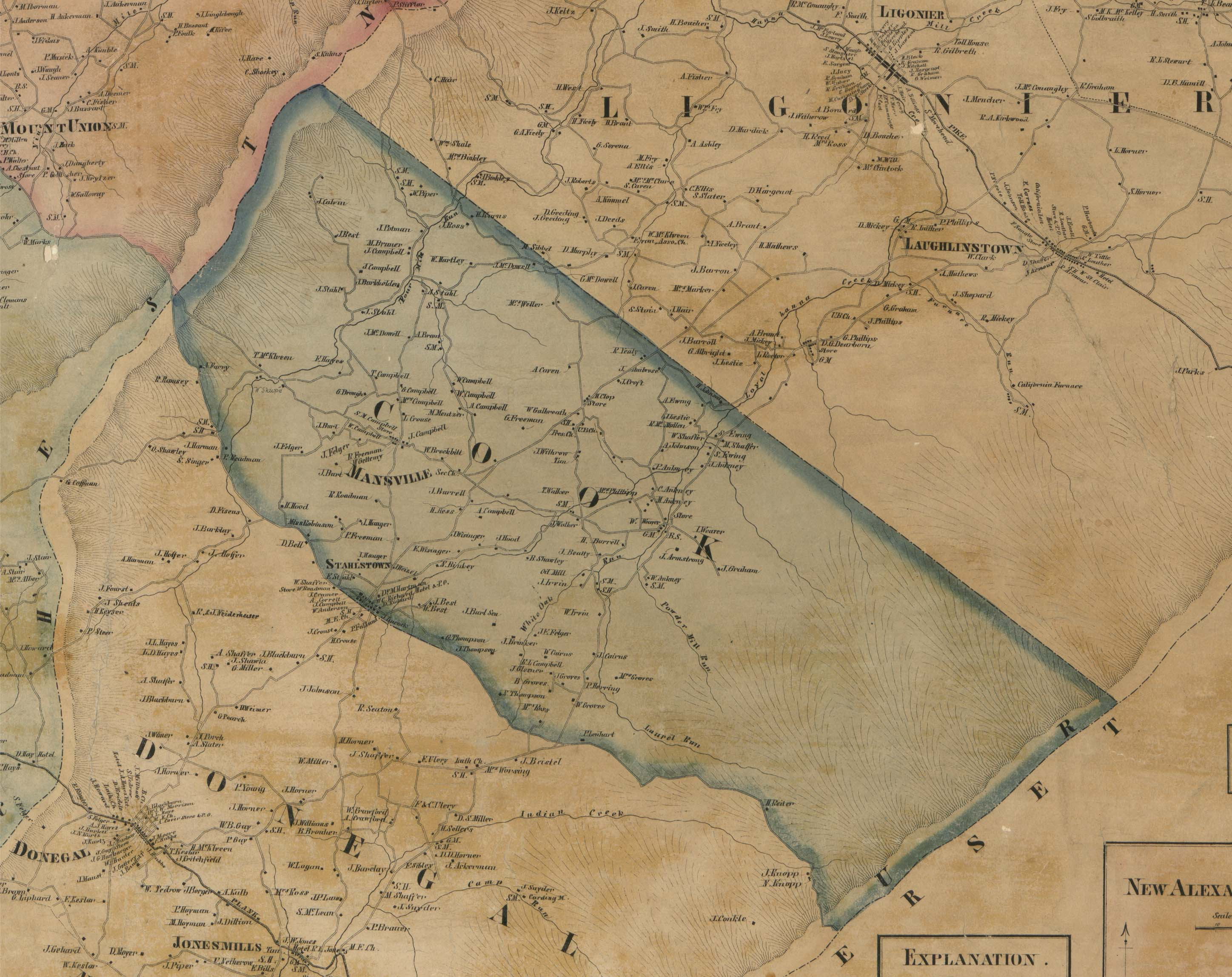 Map of Cook Township taken from 1857 William J. Barker map of Westmoreland County, Pennsylvania, available at the Library of Congress website